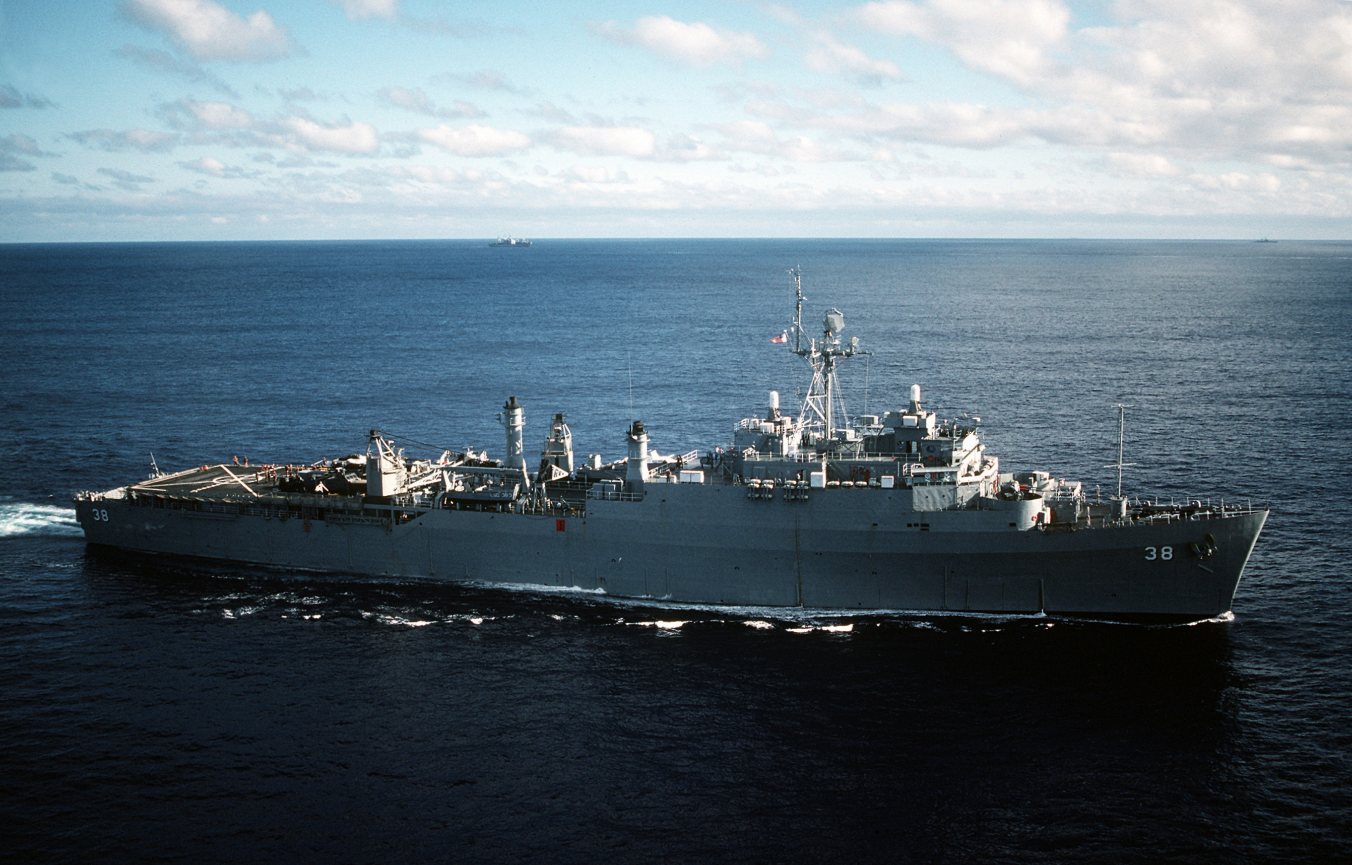 A starboard view of the U.S. Navy dock landing ship USS Pensacola (LSD-38) underway with the aircraft carrier USS John F. Kennedy (CV-67) battle group. The ship, which was part of Task Group 24.4, was in an 18-ship formation that was transiting the North Atlantic Ocean to the Mediterranean Sea.